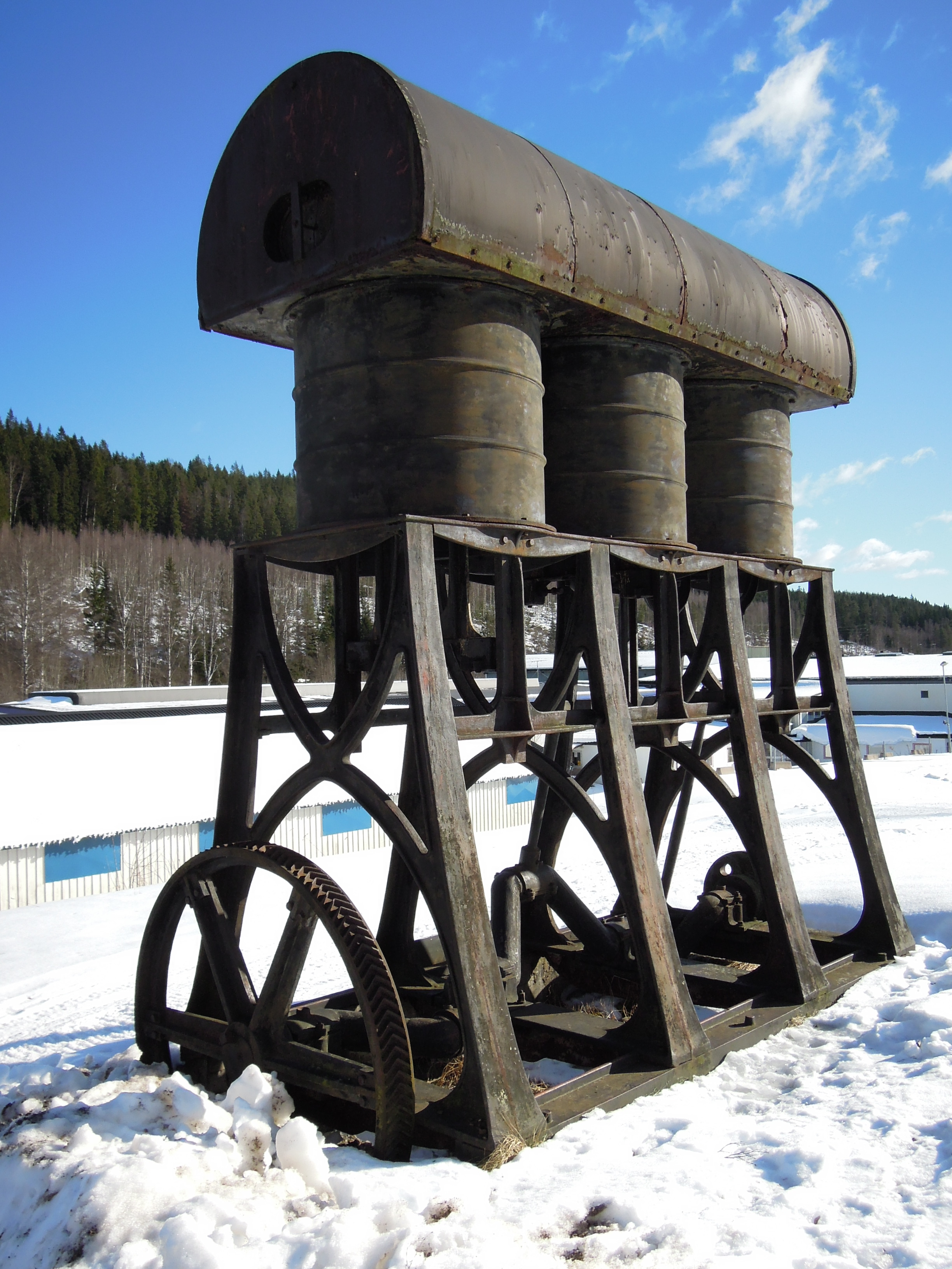 A Swedish blowing machine for blast furnaces. This type was used in Sweden about 1850 - 1910. Located in Lesjöfors, Sweden.